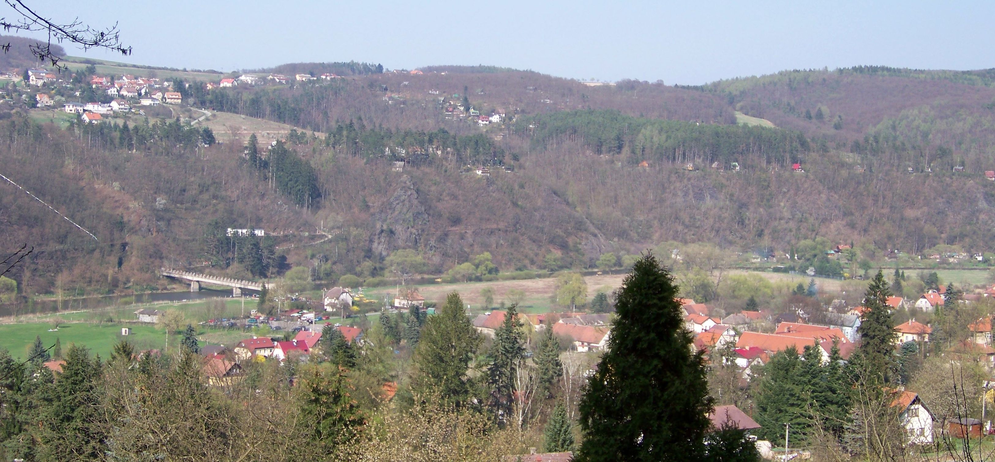 Hradištko-Pikovice and Petrov, Central Bohemian Region, Sázava River. The Czech Republic.